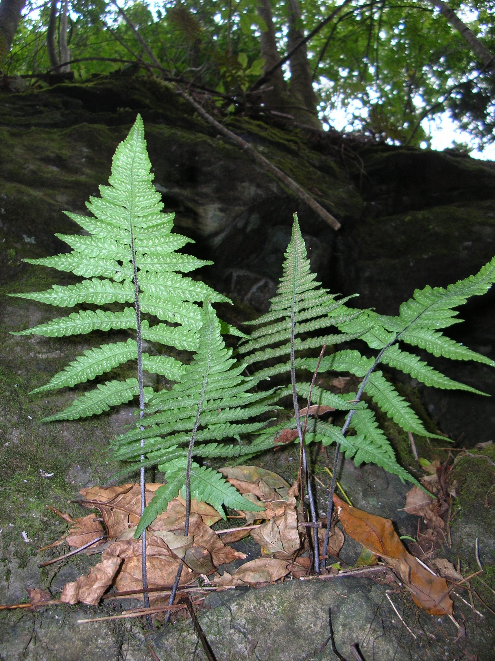 Deparia petersenii (habit). Location: Maui, Makawao Forest Reserve